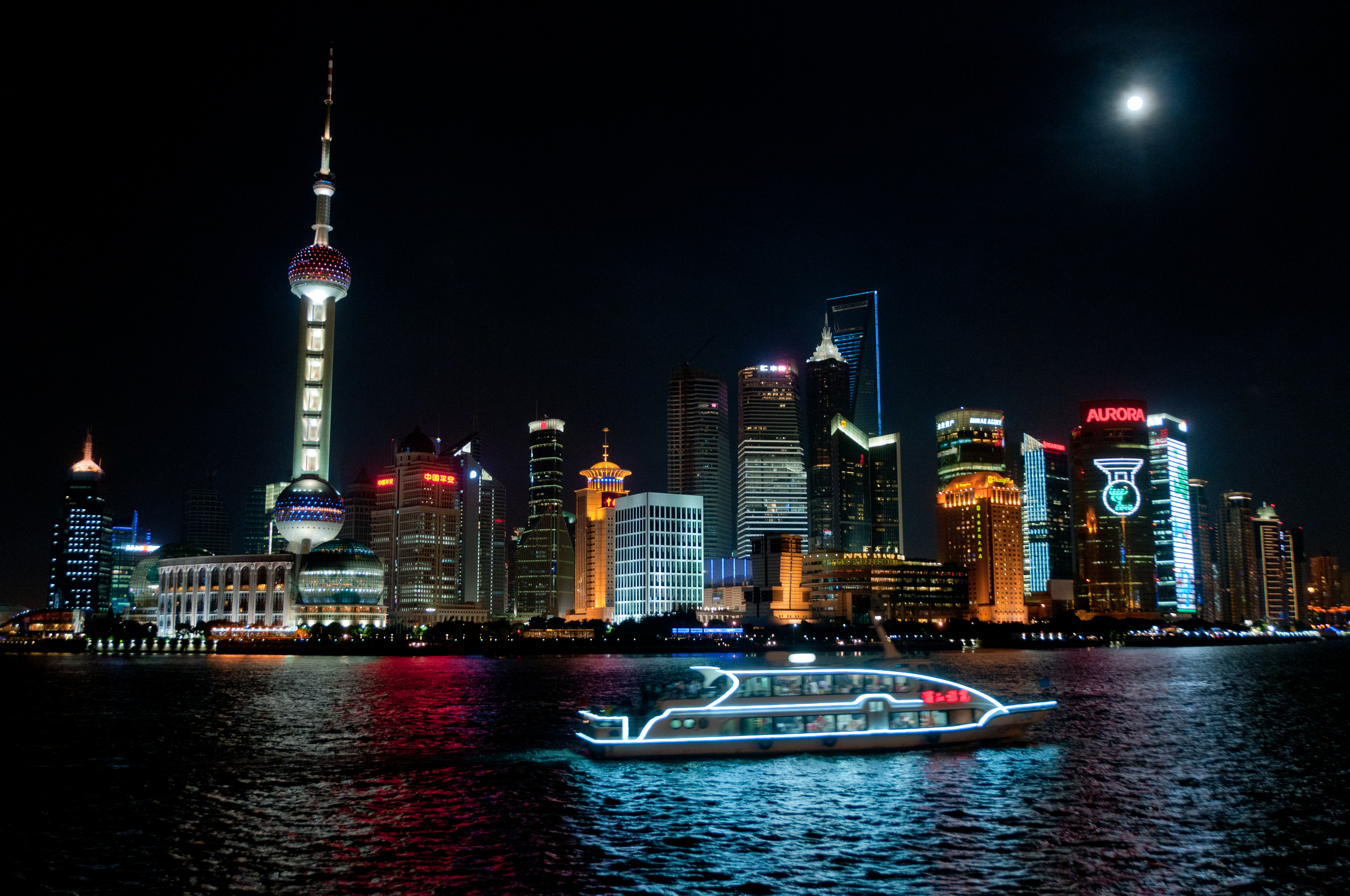 Pudong by night